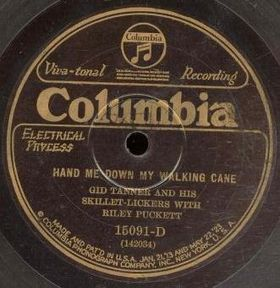 Hand Me Down My Walking Cane by Gid Tanner and his Skillet Lickers, Columbia 1926.